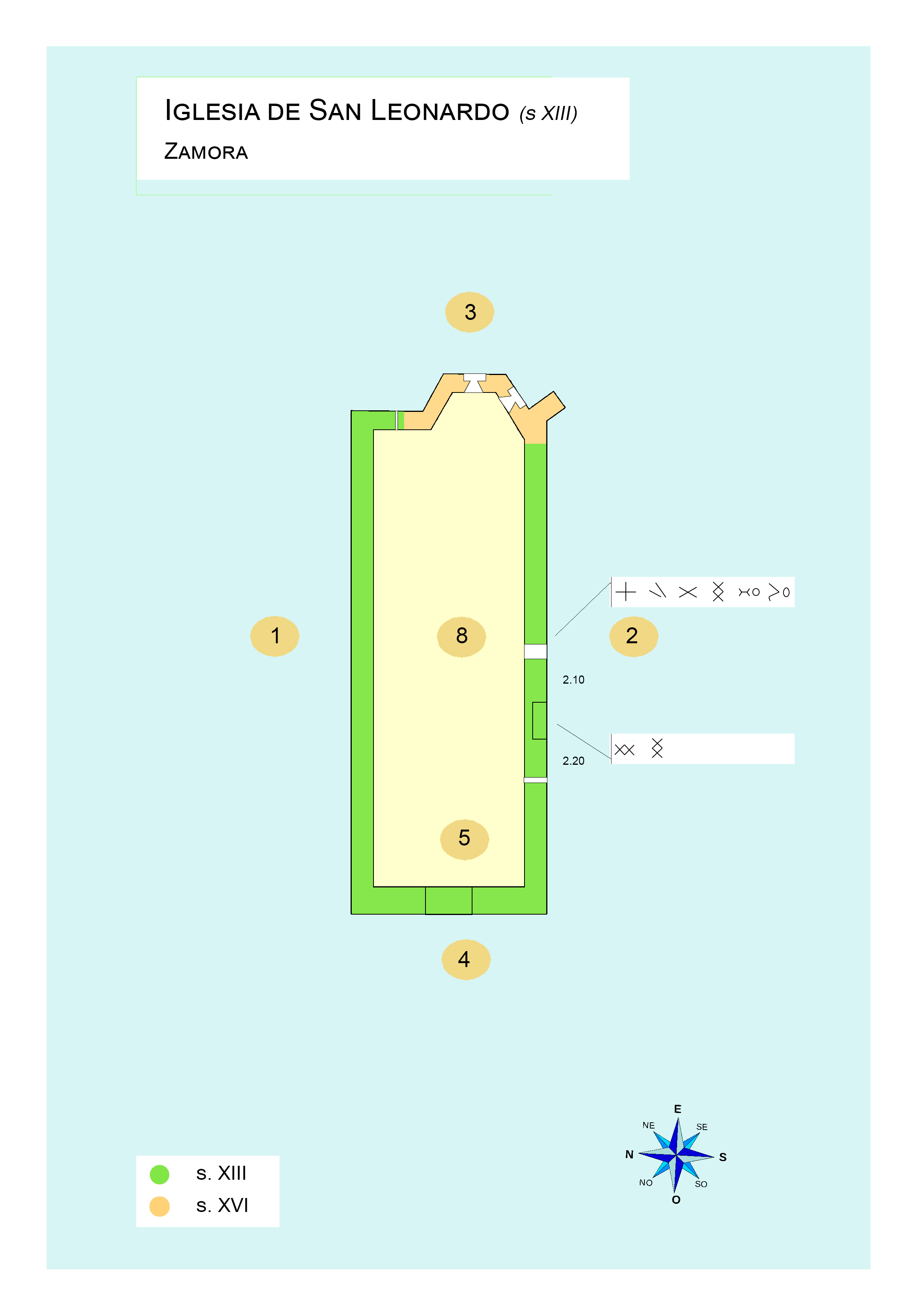 San Leonardo church, Zamora Spain, romanesque s. XIII. Plan appro. and stonecutteer marks catalog.